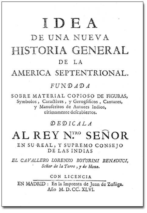 Title page of a book by Boturini